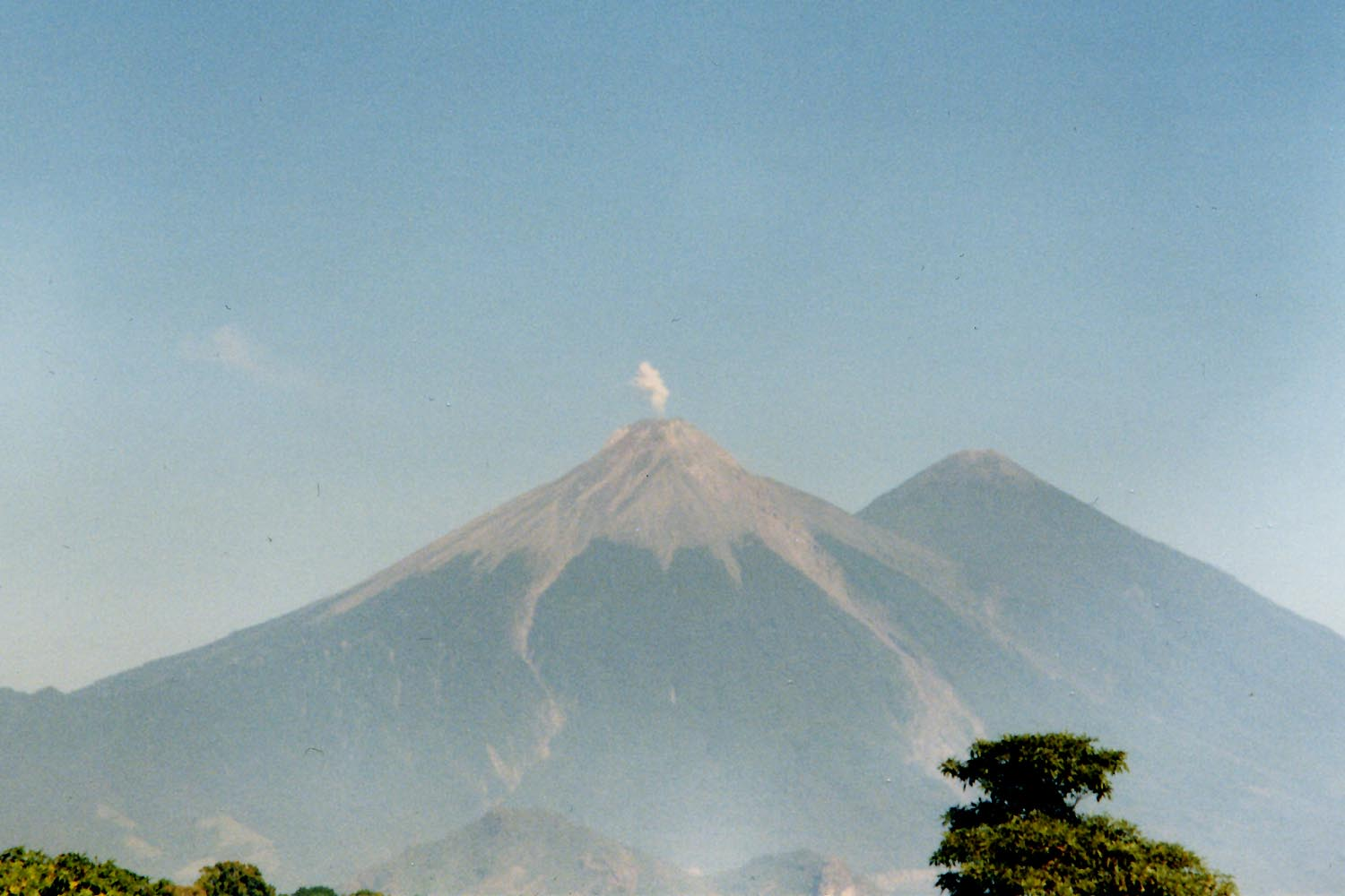 Volcán de Fuego in Guatemala